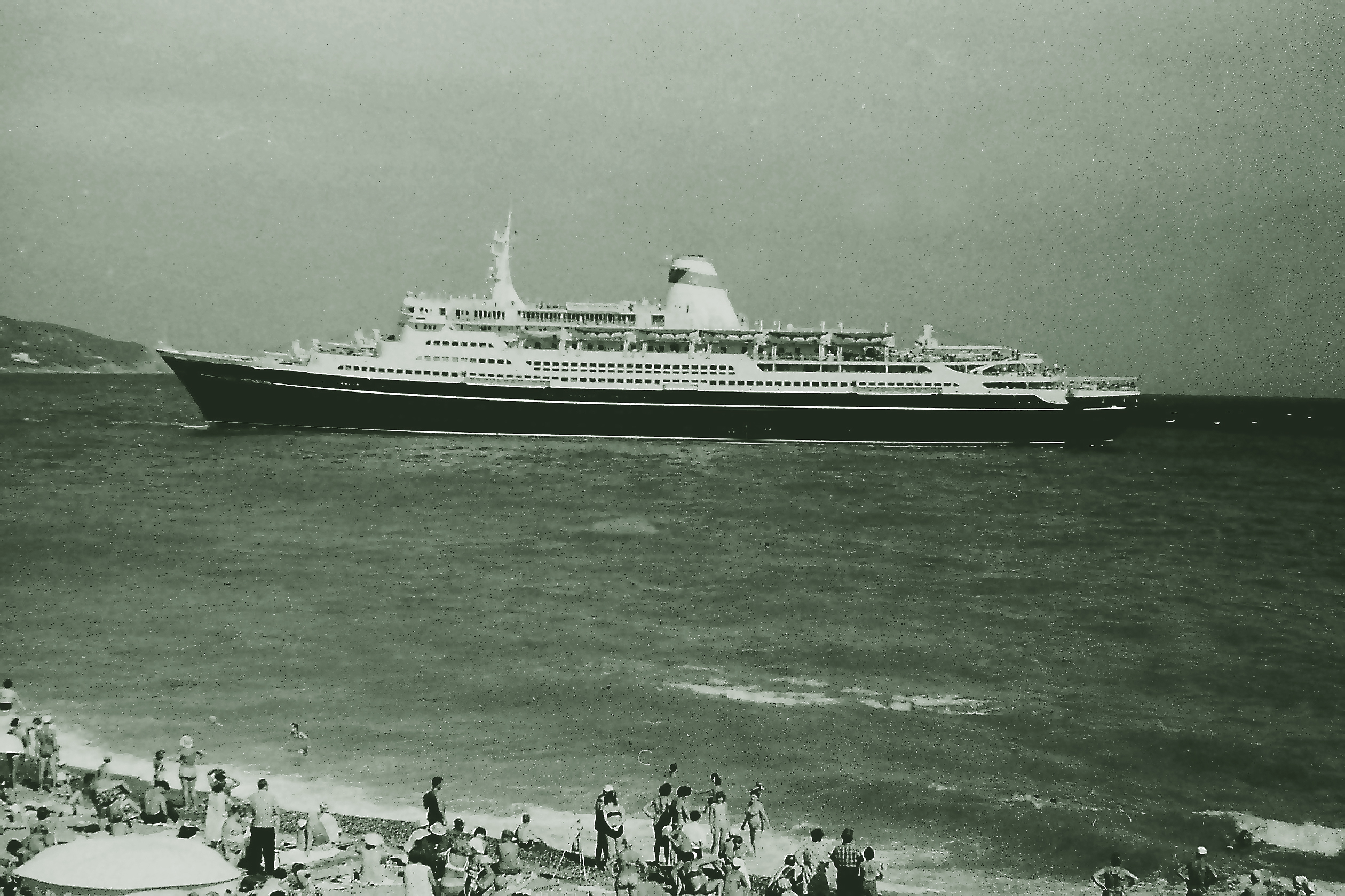 Shota Rustaveli in Yalta in 1968 (project 301, in Germany known as Seefa 750)